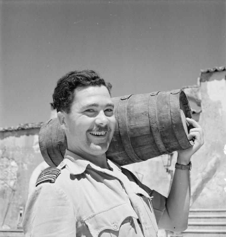 Royal Air Force- Italy, the Balkans and South-east Europe, 1942-1945. Wing Commander G H Westlake, Commanding Officer of No.1 Mobile Operations Room Unit, photographed with a cask of Sicilian wine at Comiso. Westlake shot down nine enemy aircraft and shared in the destruction of two during his period as a fighter pilot with Nos, 80 and 213 Squadrons RAF, leading the latter unit in North Africa between August and October 1942. He then worked as a controller with Nos. 211 and 212 Groups in Tunisia before becoming 1 MORU for the invasions of Sicily and Italy. He later returned to operations, commanding a unit of the Italian Co-Belligerent Air Force, then leading No. 239 Wing RAF in Italy until June 1945. He was responsible for the success of Operation BOWLER, when, on 26 March 1945, he led the wing on a very sensitive attack on shipping in the harbour of Venice.